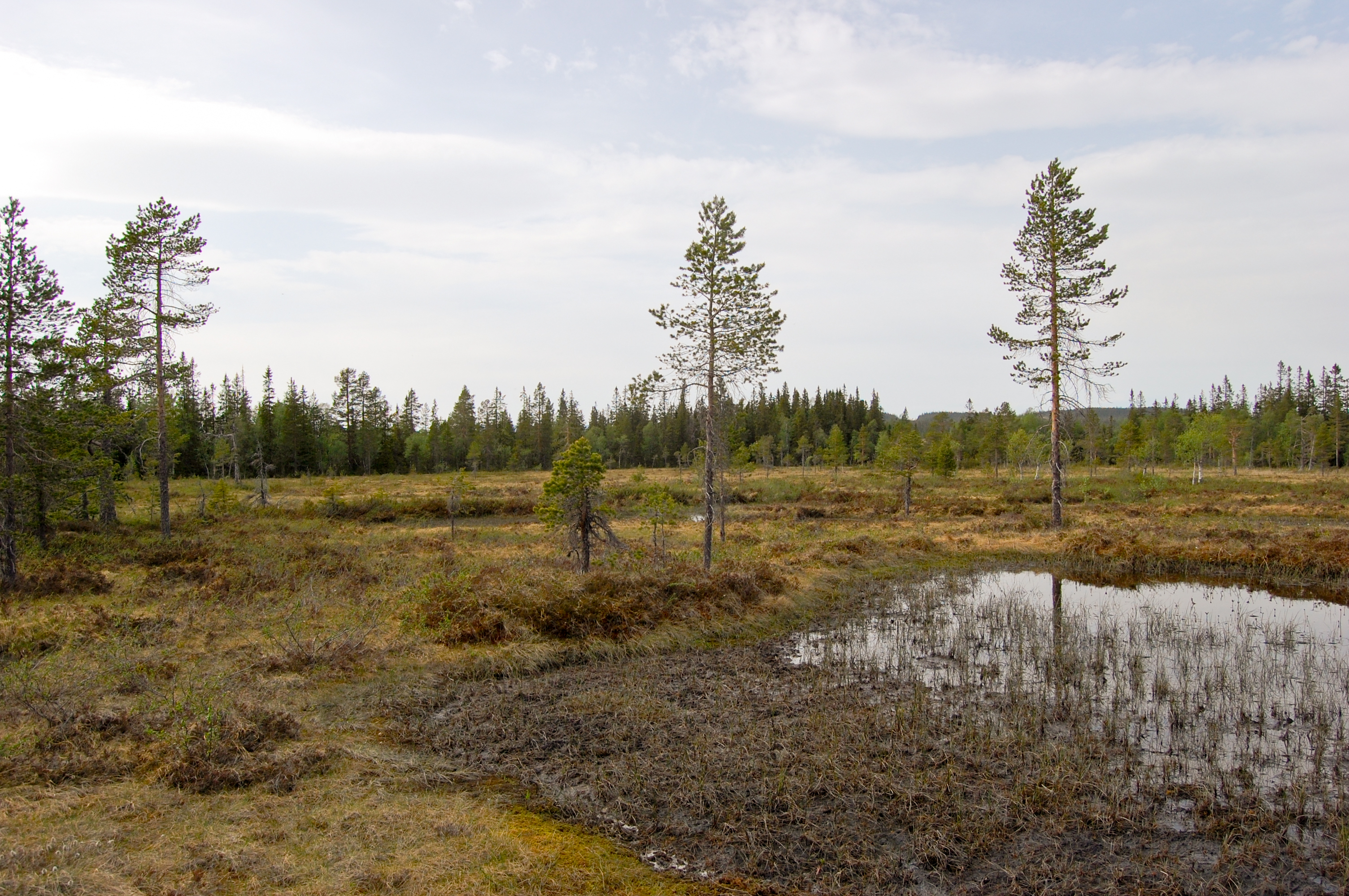 Bog landscape in Koppången nature reserve, Dalarna, Sweden